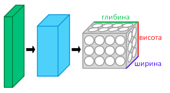 CNN layers arranged in 3-D volumes (in Ukrainian)